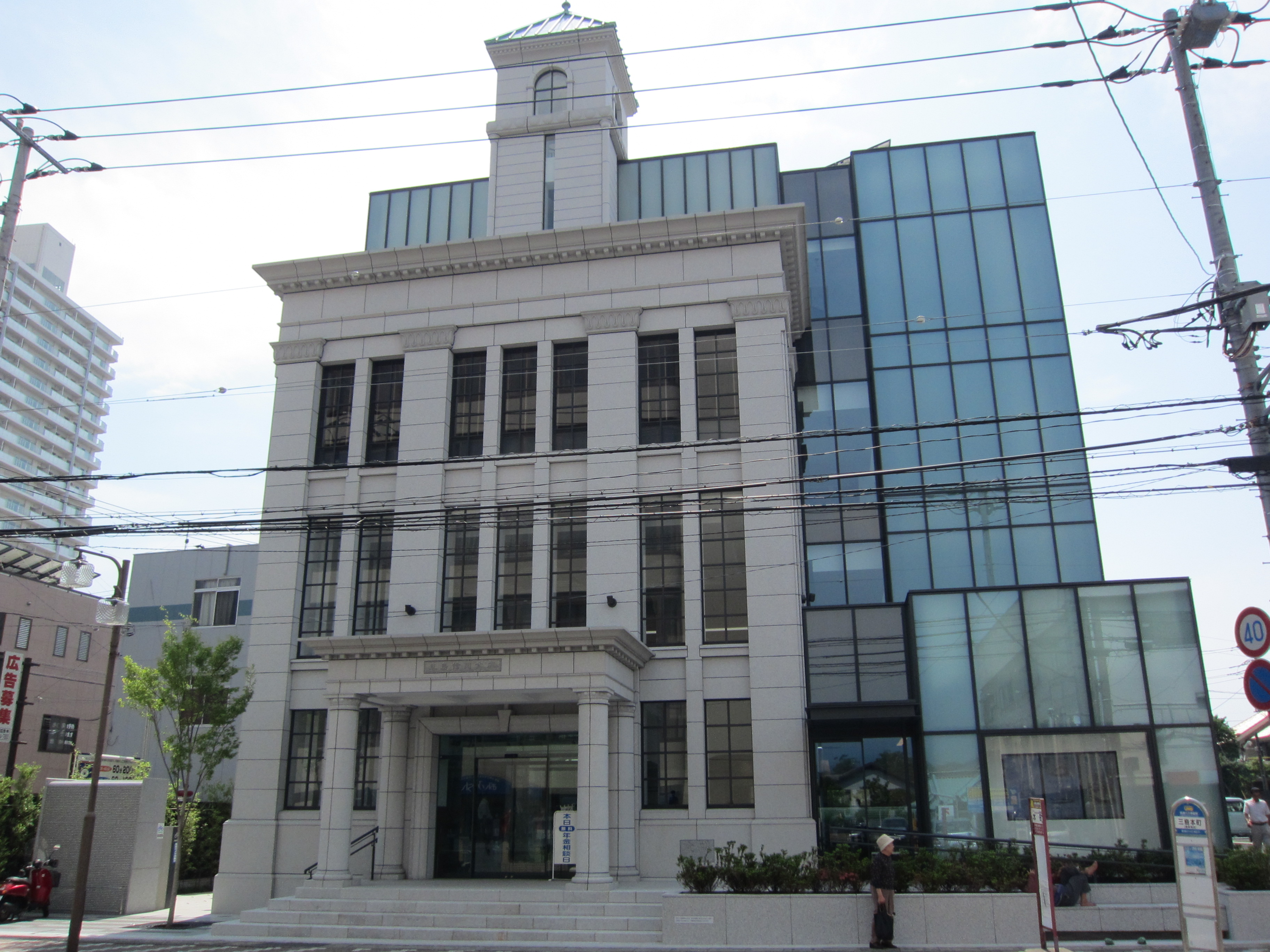 Mishima Shinkin Bank